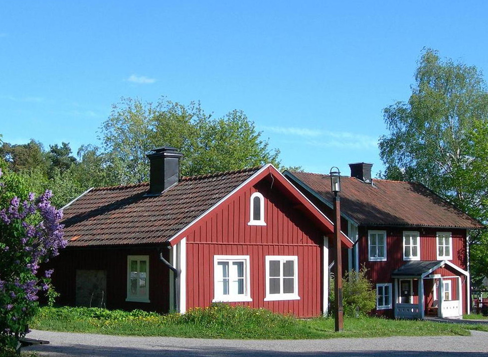 Typical traditional red Swedish houses in Stockholm.